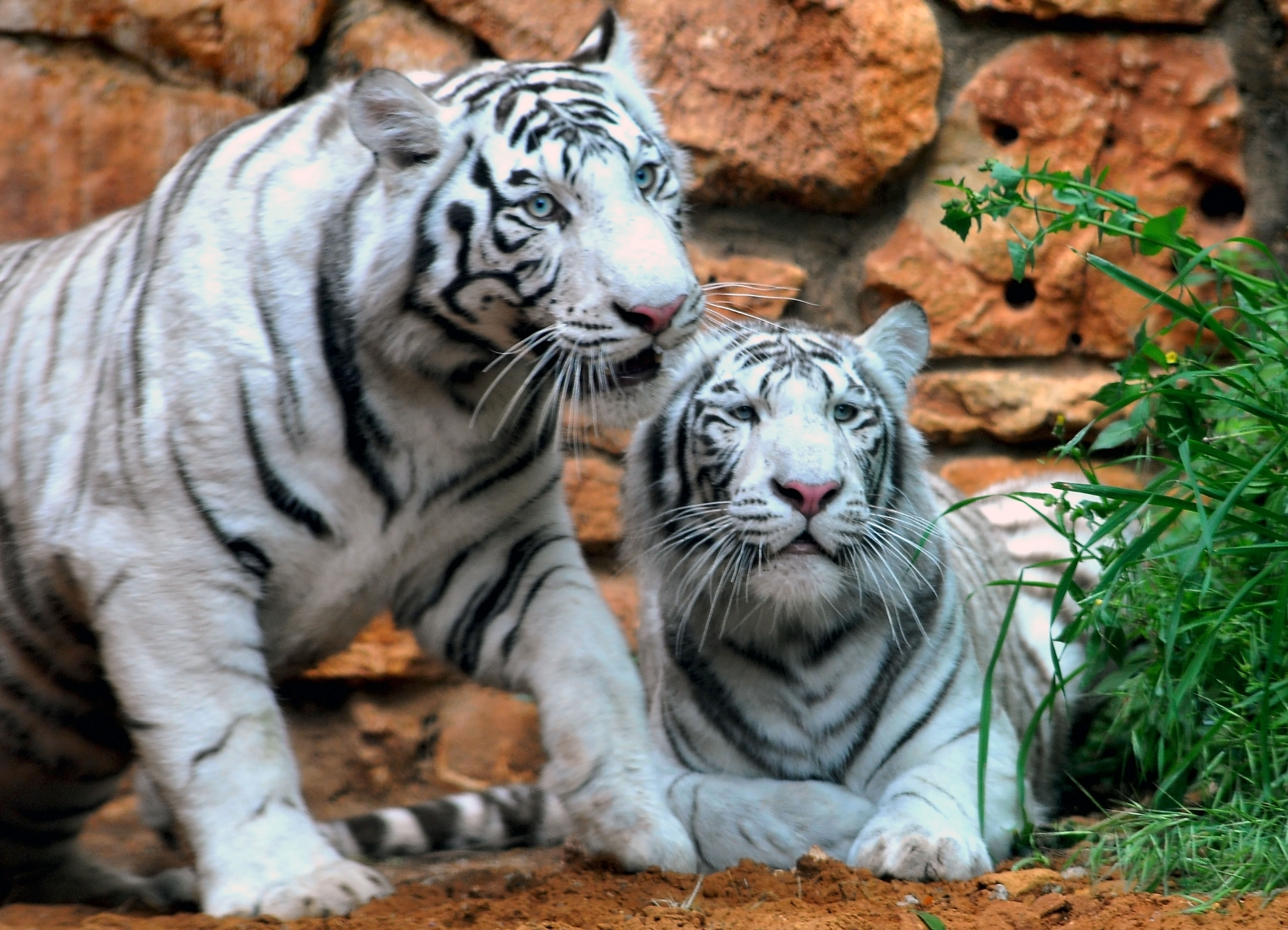 A couple of White Bengal Tigers at the Haifa Educational Zoo